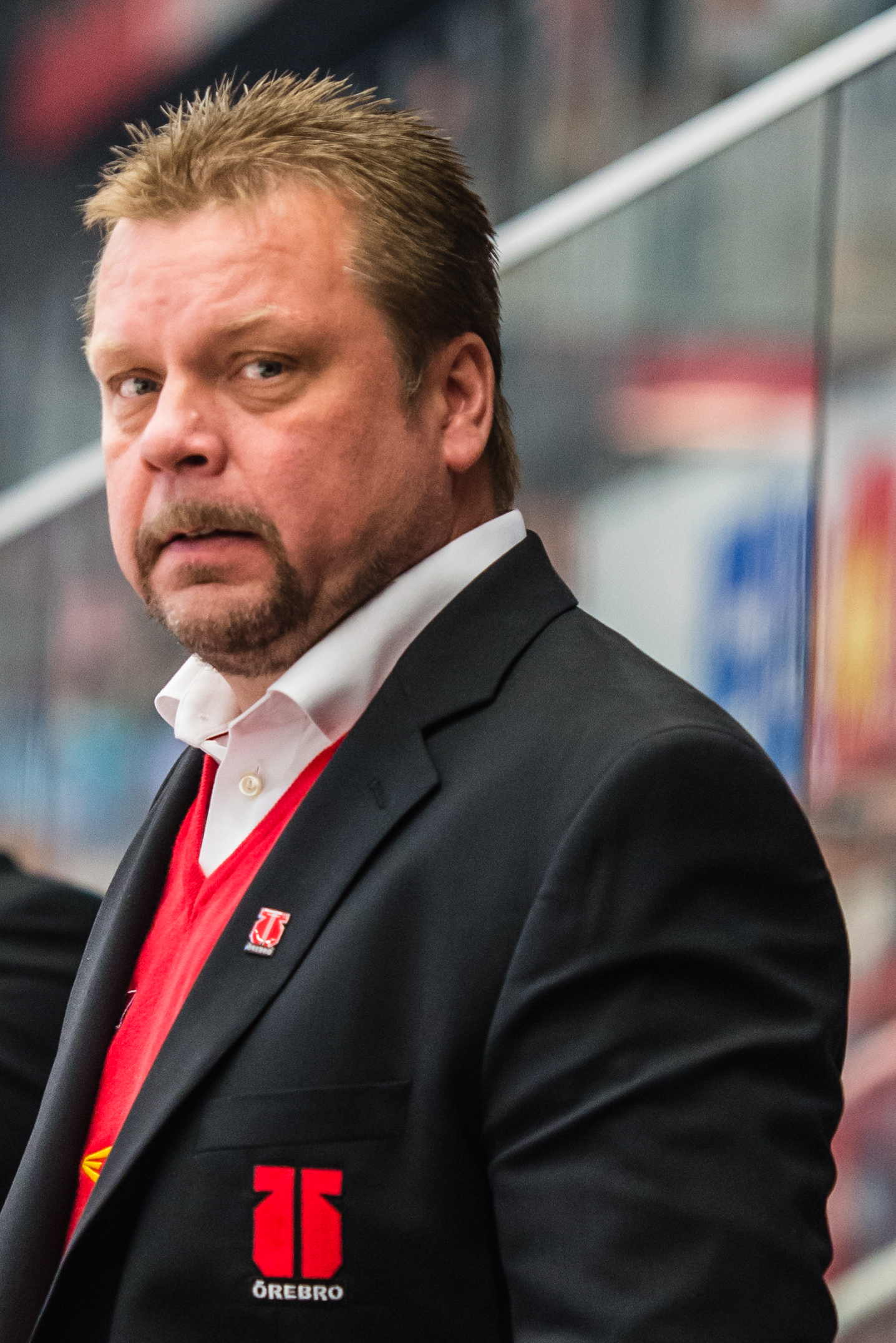 Roland Sätterman, assistant coach of Örebro HK in SHL (Sweden's highest league) against MODO Hockey in Behrn Arena 2013-10-05.